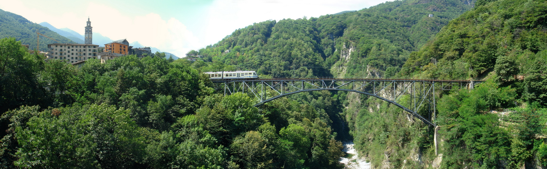 Intragna in Centovalli with train viaduct - panoramic view